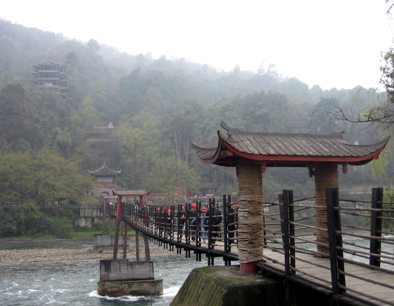 Anlan Suspension Bridge, predates the Song dynasty, rebuilt many times. It's also known as Husband-Wife Bridge.